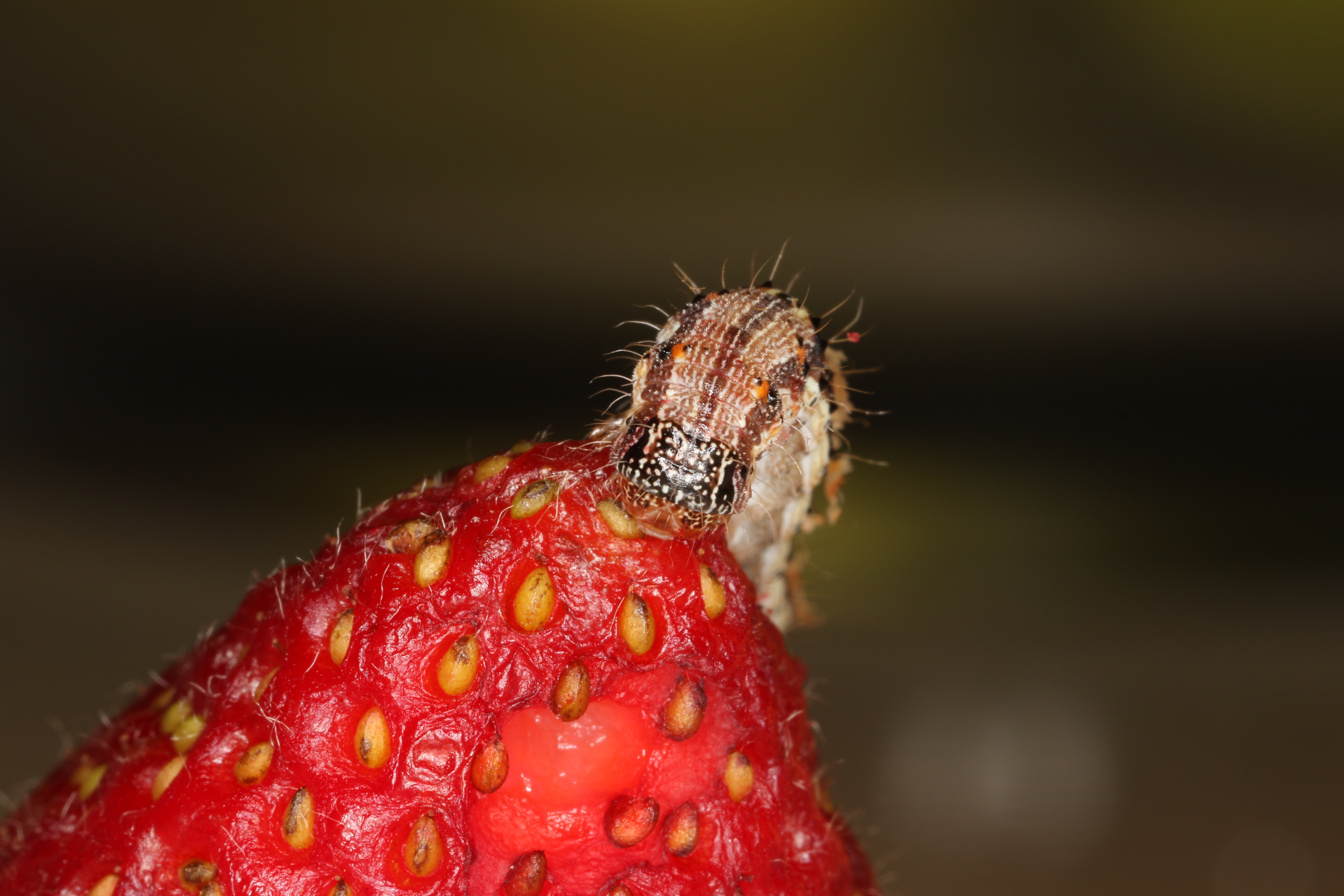 Helicoverpa armigera (Hübner, [1809]), larva, found in strawberries from Victoria, Aranda, ACT, 24 December 2015